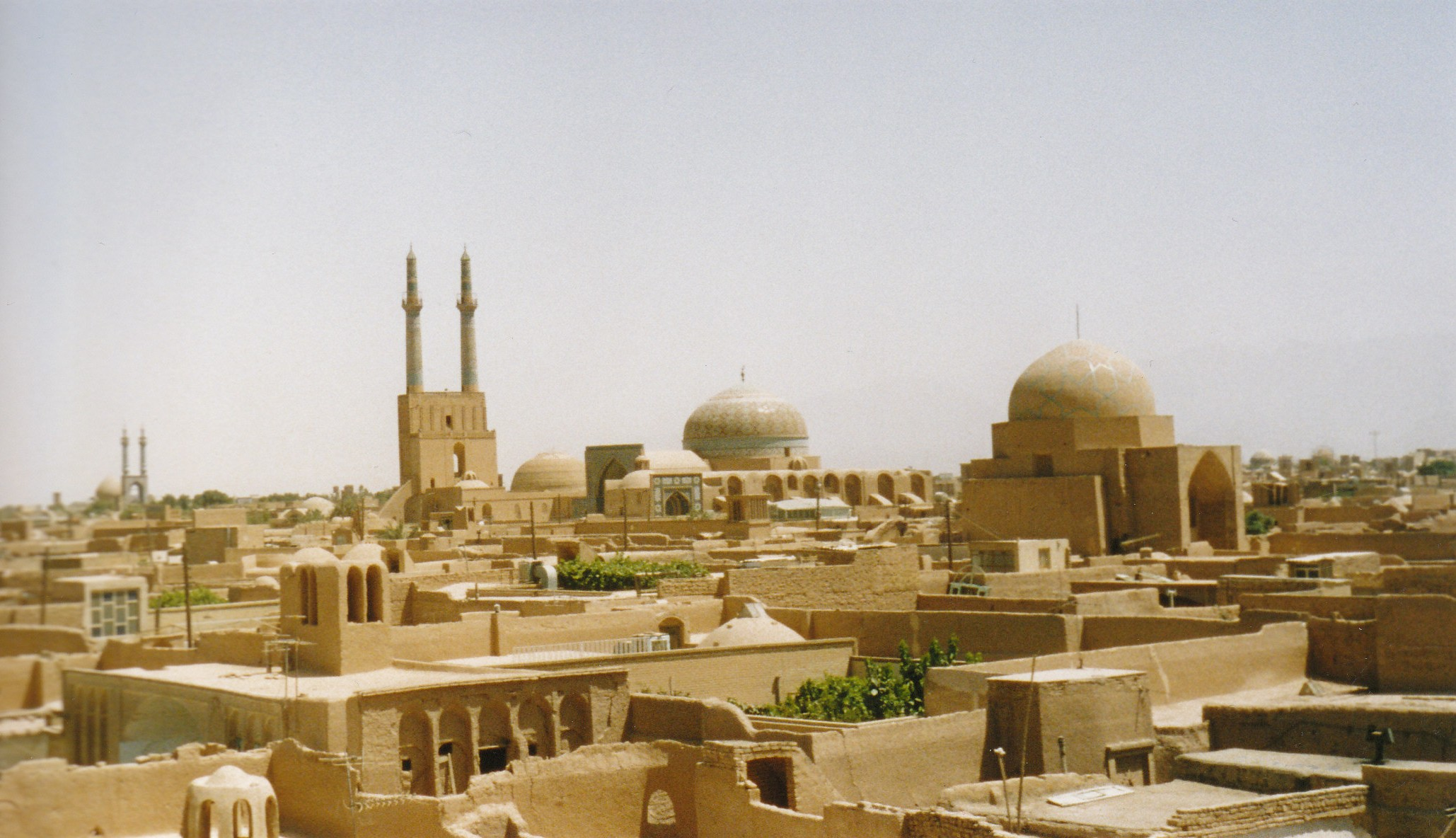 Old City Yazd, Iran